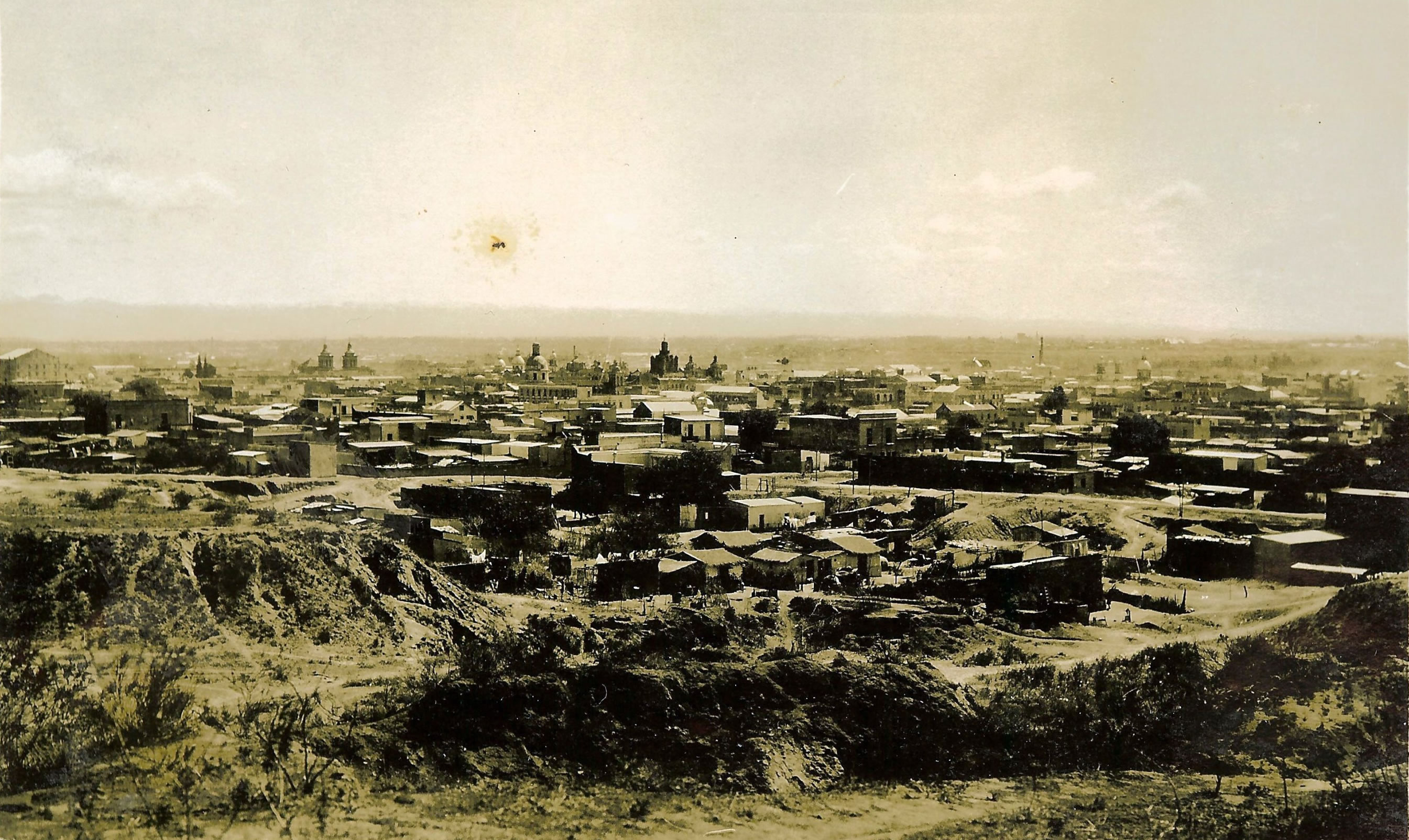 Panorama of Cordoba City, Argentina, around 1800.